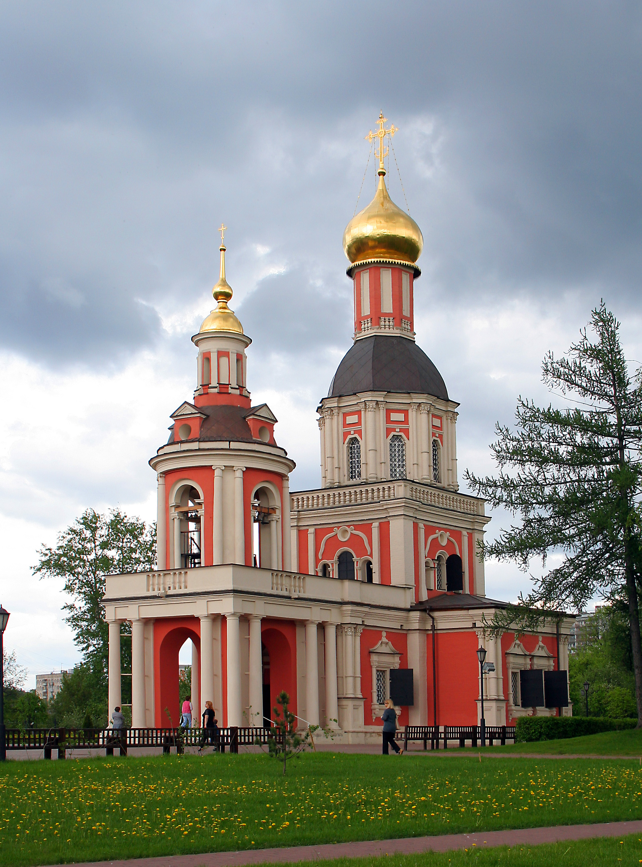 Former Sviblovo Estate in Moscow. Trinity church.